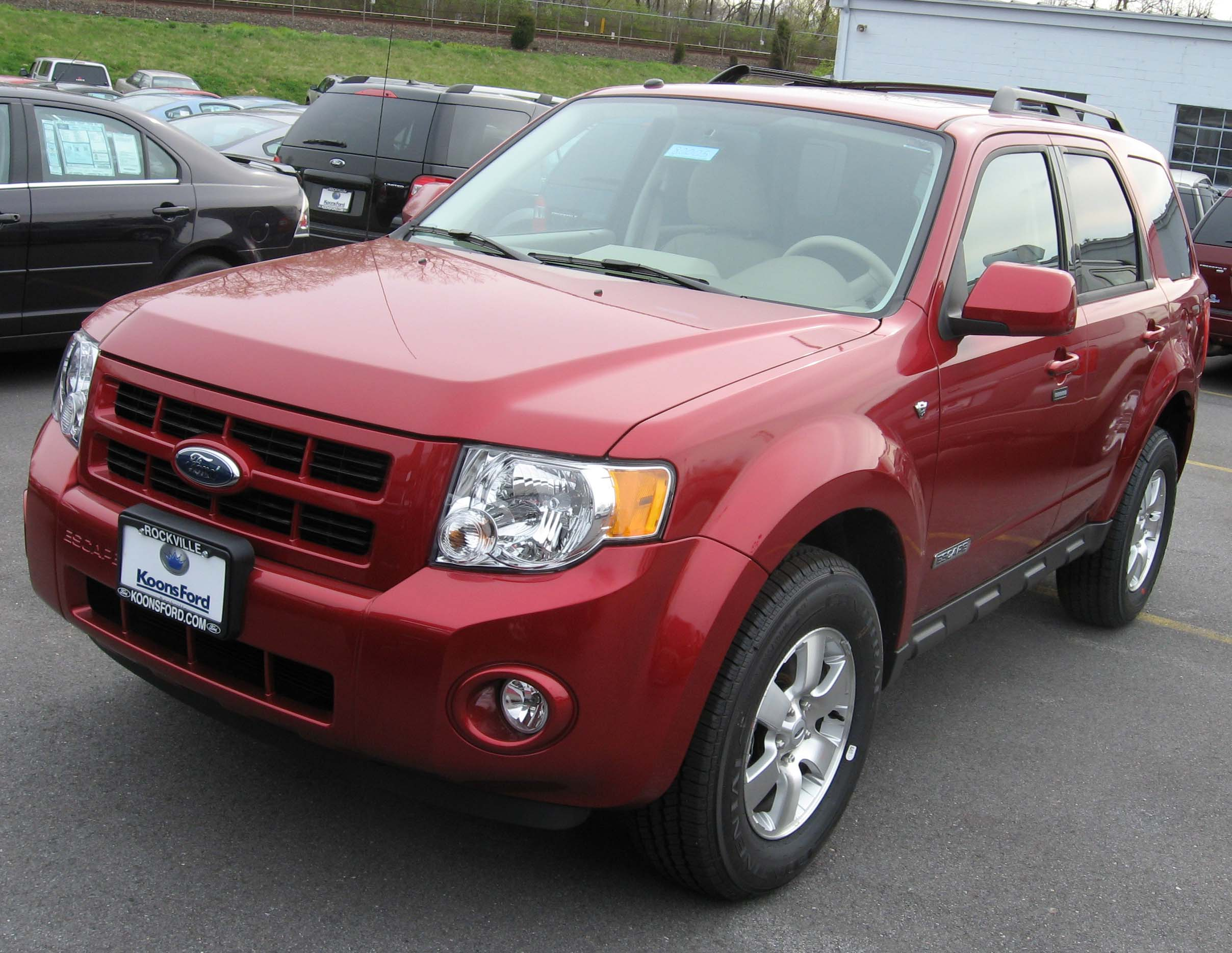 2008 Ford Escape photographed in USA.